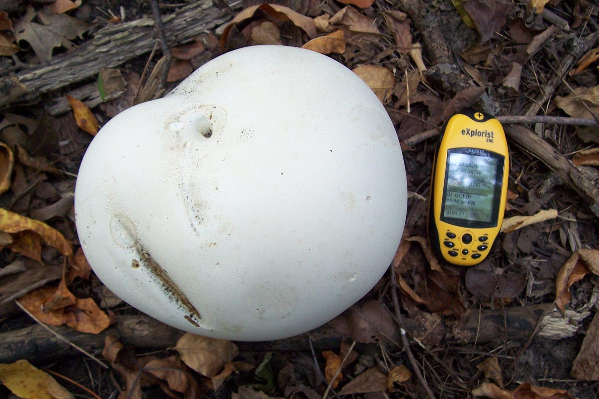 Giant Puffball with a Magellan eXplorist 200 GPS receiver for scale. This specimen was found at Falk Park in Oak Creek, Wisconsin.